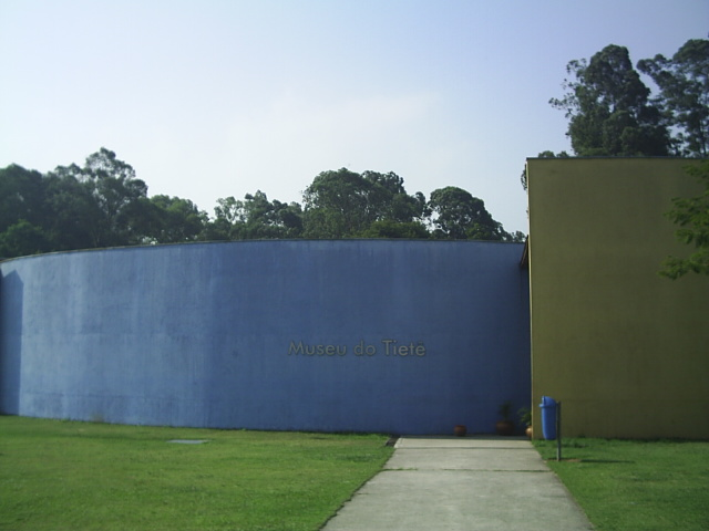 Museum of Tietê, in Ecological Park of Tietê, in São Paulo City.